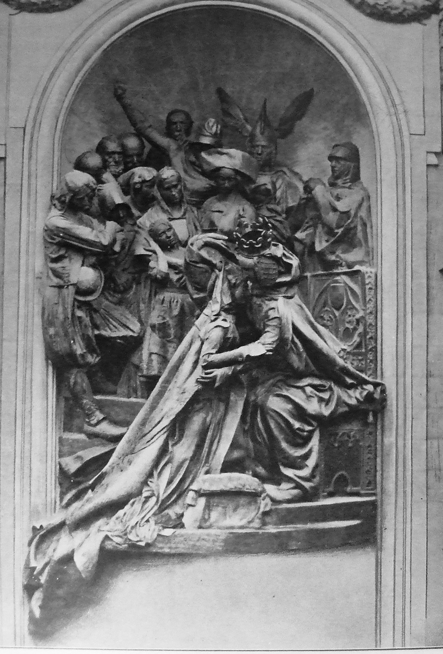 Monument to the Unity of Brittany and France, Rennes, Hotel de Villes.